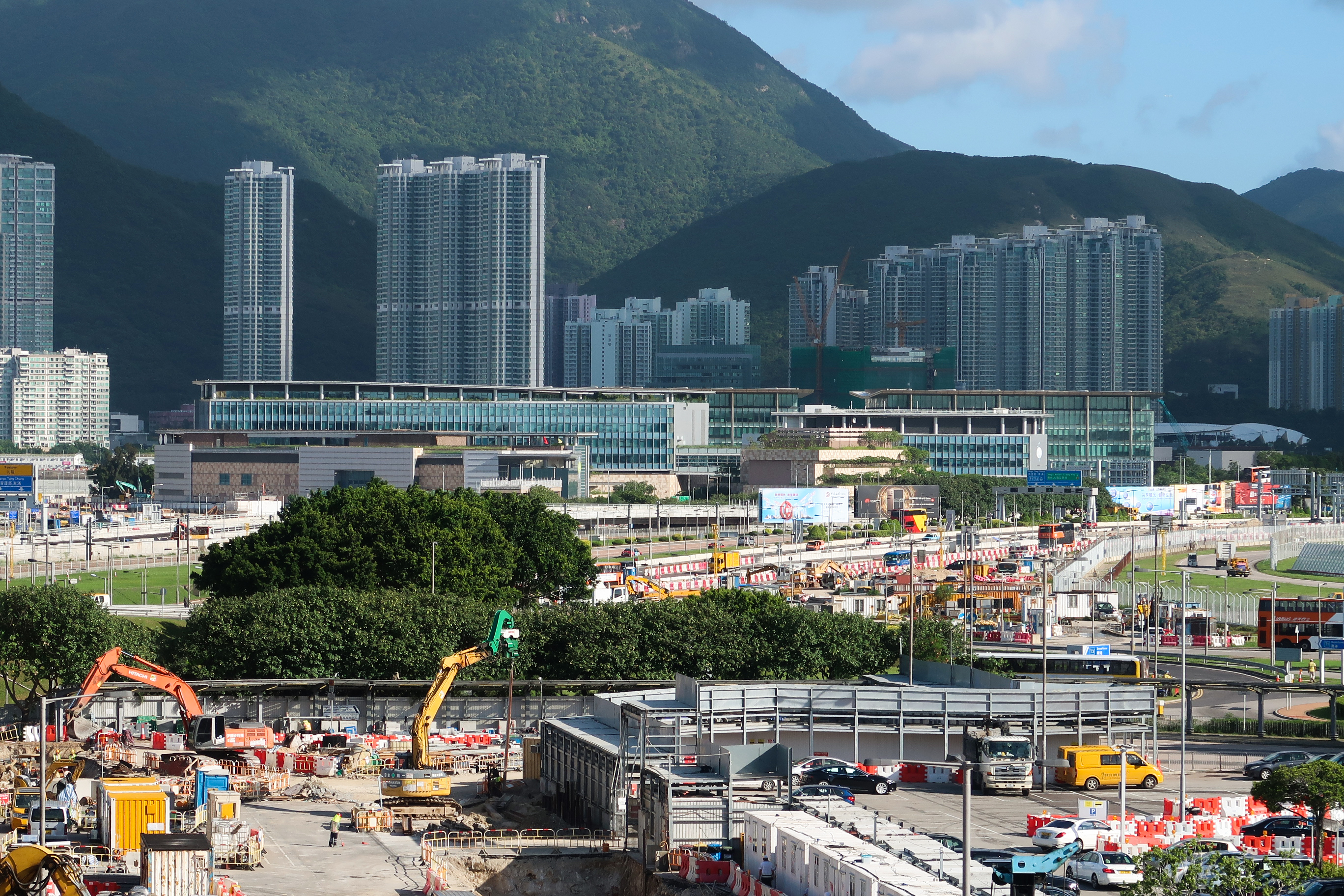 Civil Aviation Department Headquarters